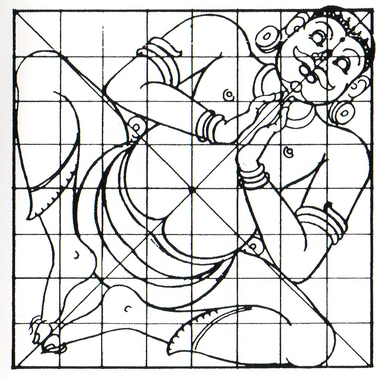 Vaastu Purusha Visão Frontal